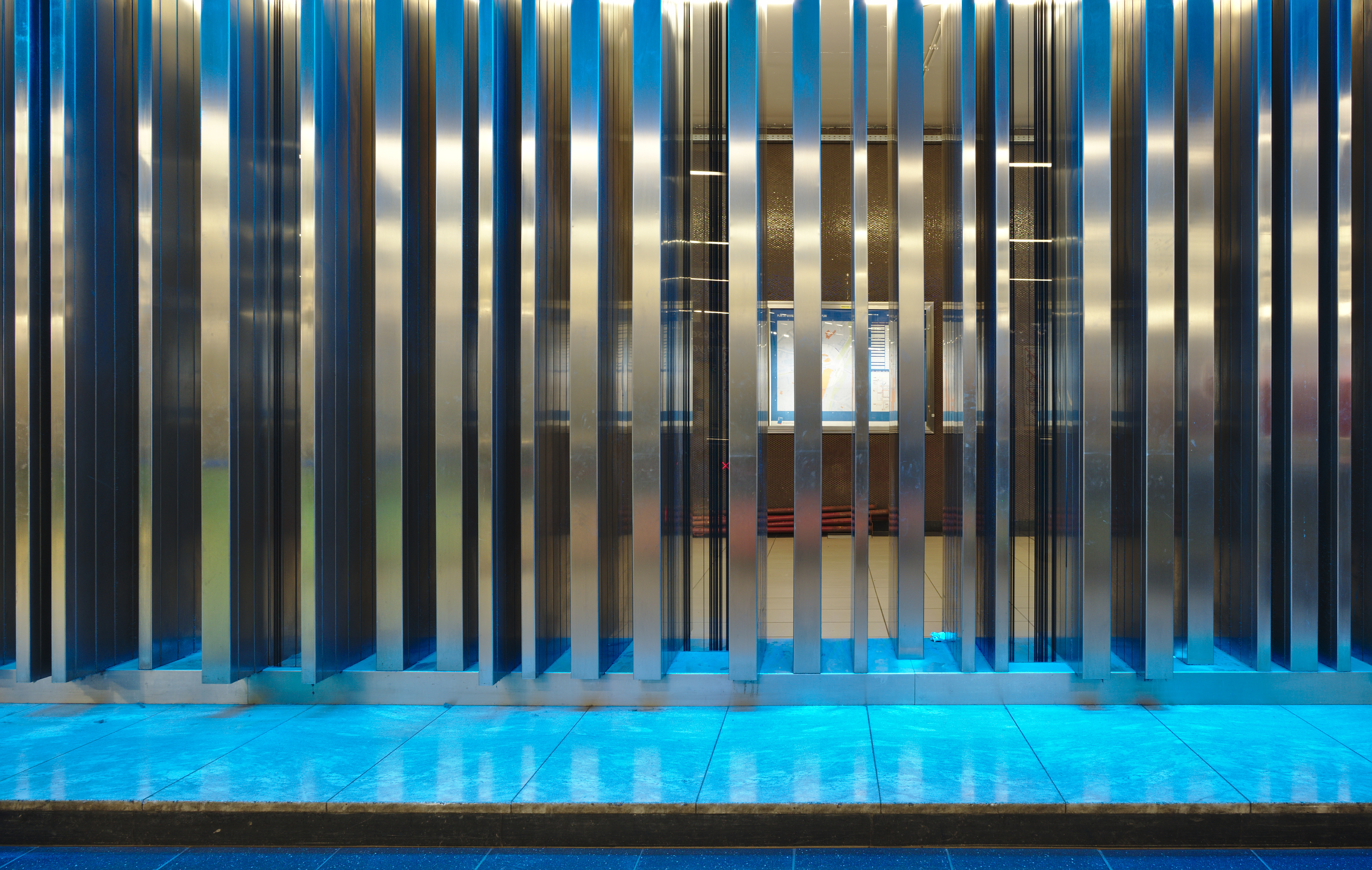 Intégration Roodebeek by Luc Peire in metro Roodebeek, blue transition (Woluwe-Saint-Lambert, Belgium)